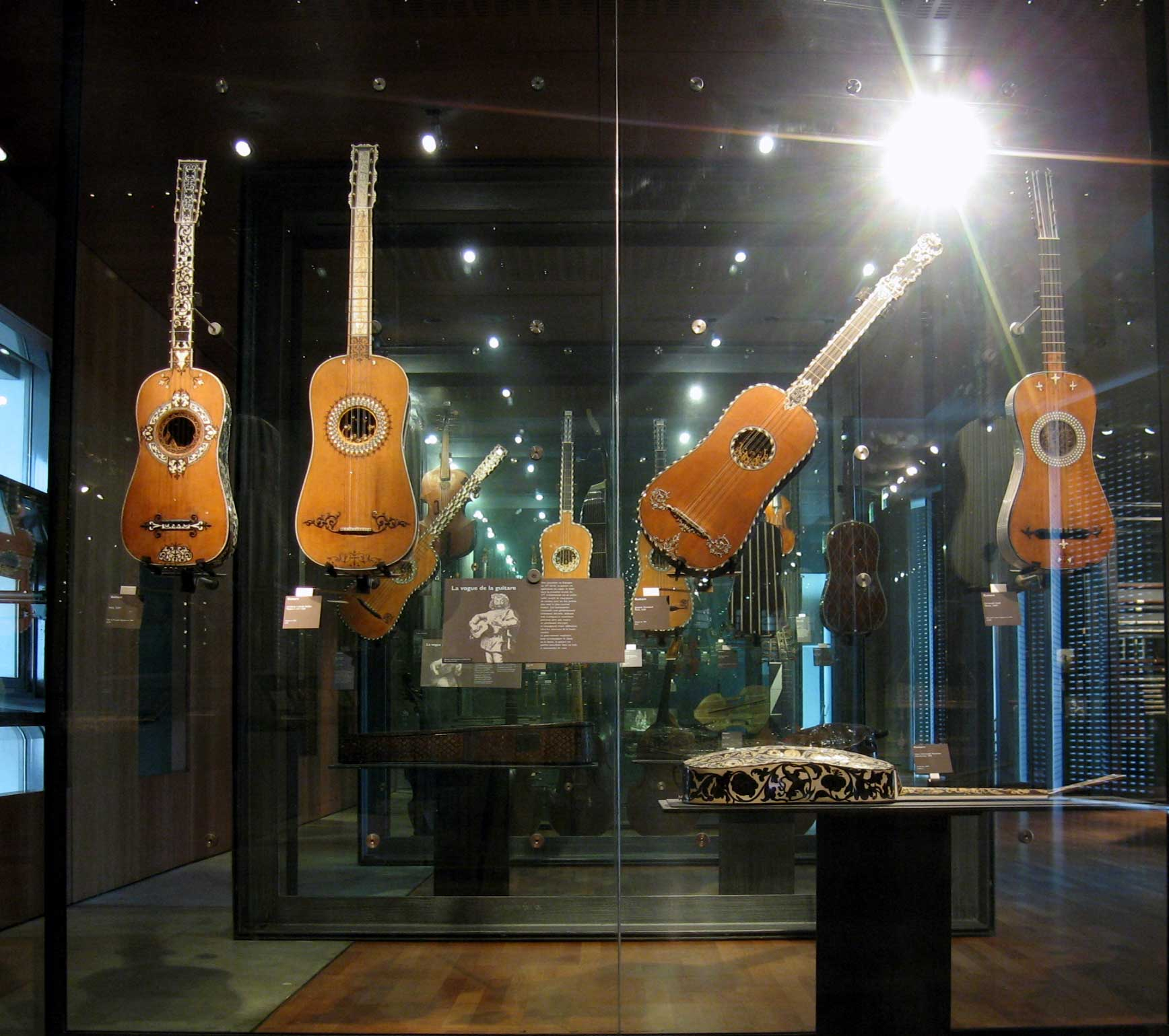 Baroque guitars exhibited at the Cité de la Musique of La Villette, Paris, France.